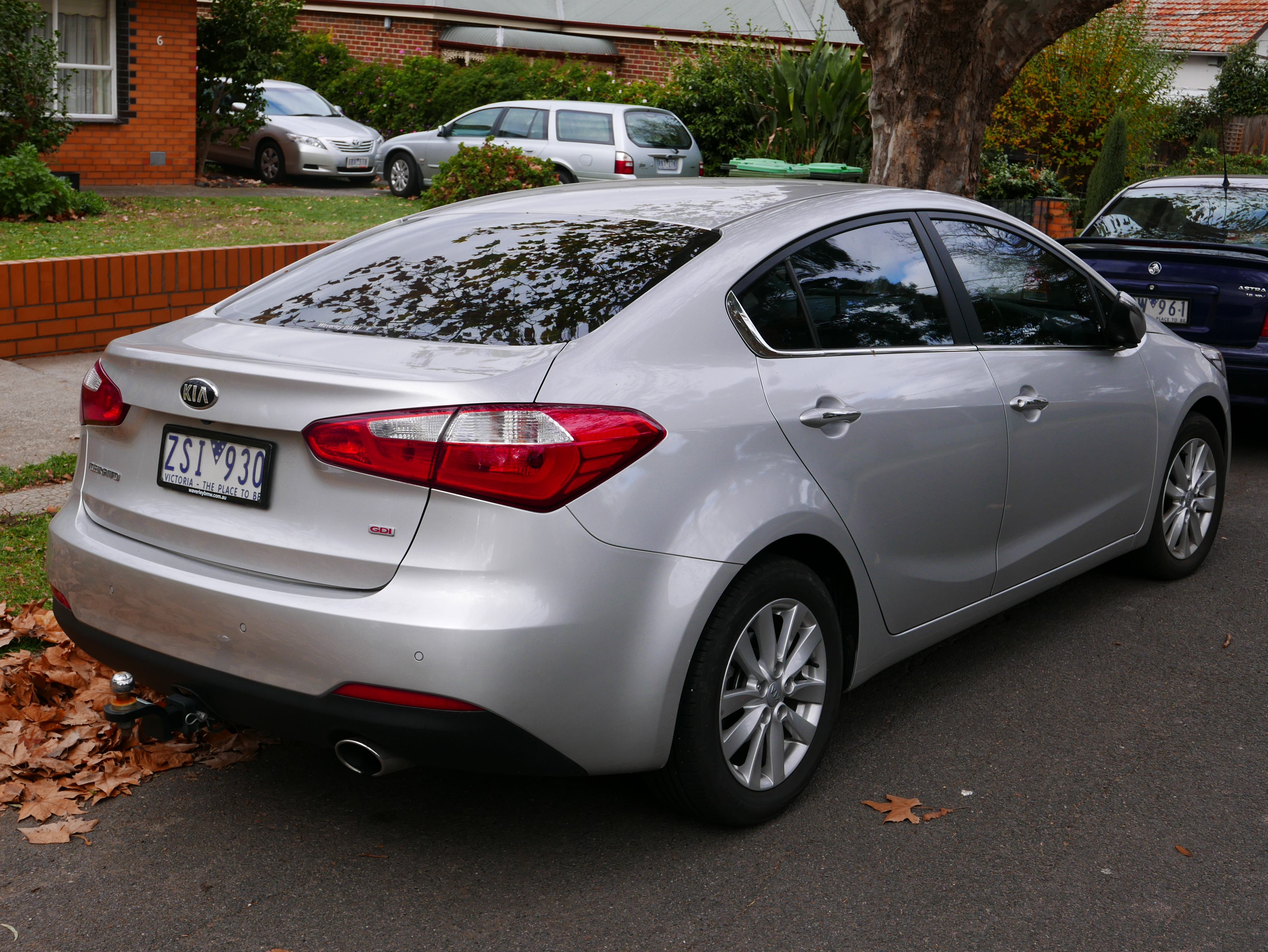 2013 Kia Cerato (YD MY13) Si sedan. Photographed in Northcote, Victoria, Australia. Vehicle registration enquiry resultsJurisdictionVictoriaRegistrationZSI930Chassis codeKNAFX418MD5063260Engine codeG4NCDH306956Compliance date2013-05Year of manufacture2013